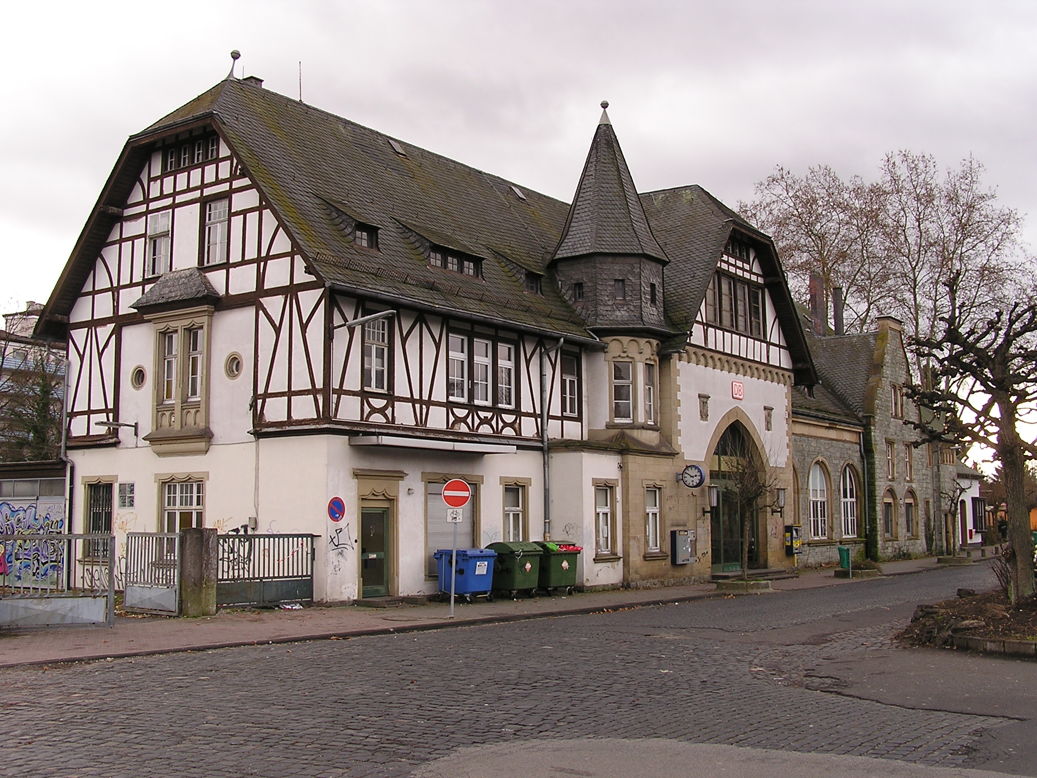 Station building of the station Oberursel (Taunus), city side